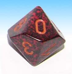 Die in shape of pentagonal trapezohedron